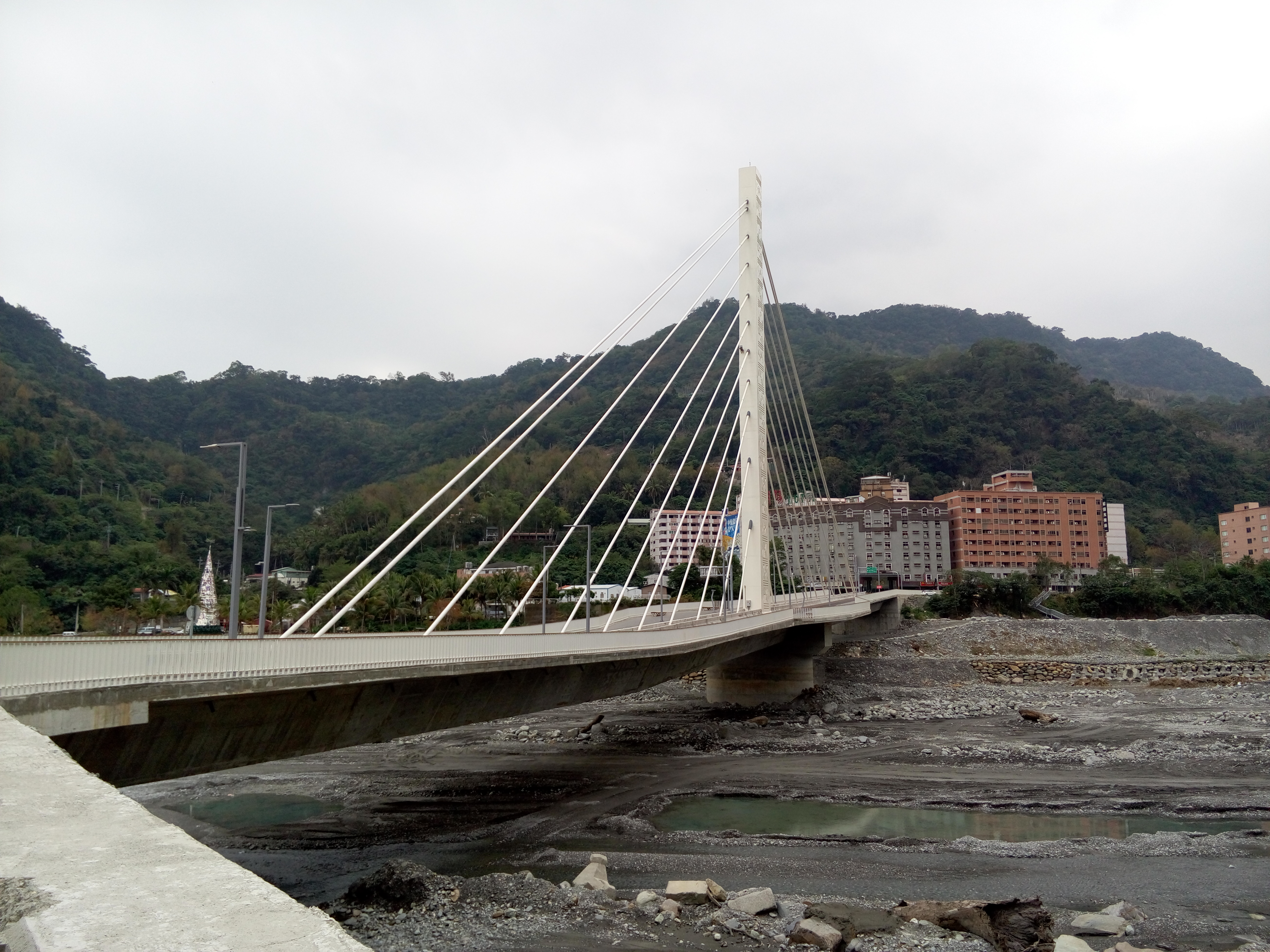 Taiwan(R.O.C) Taitung Yong-Nan Bridge